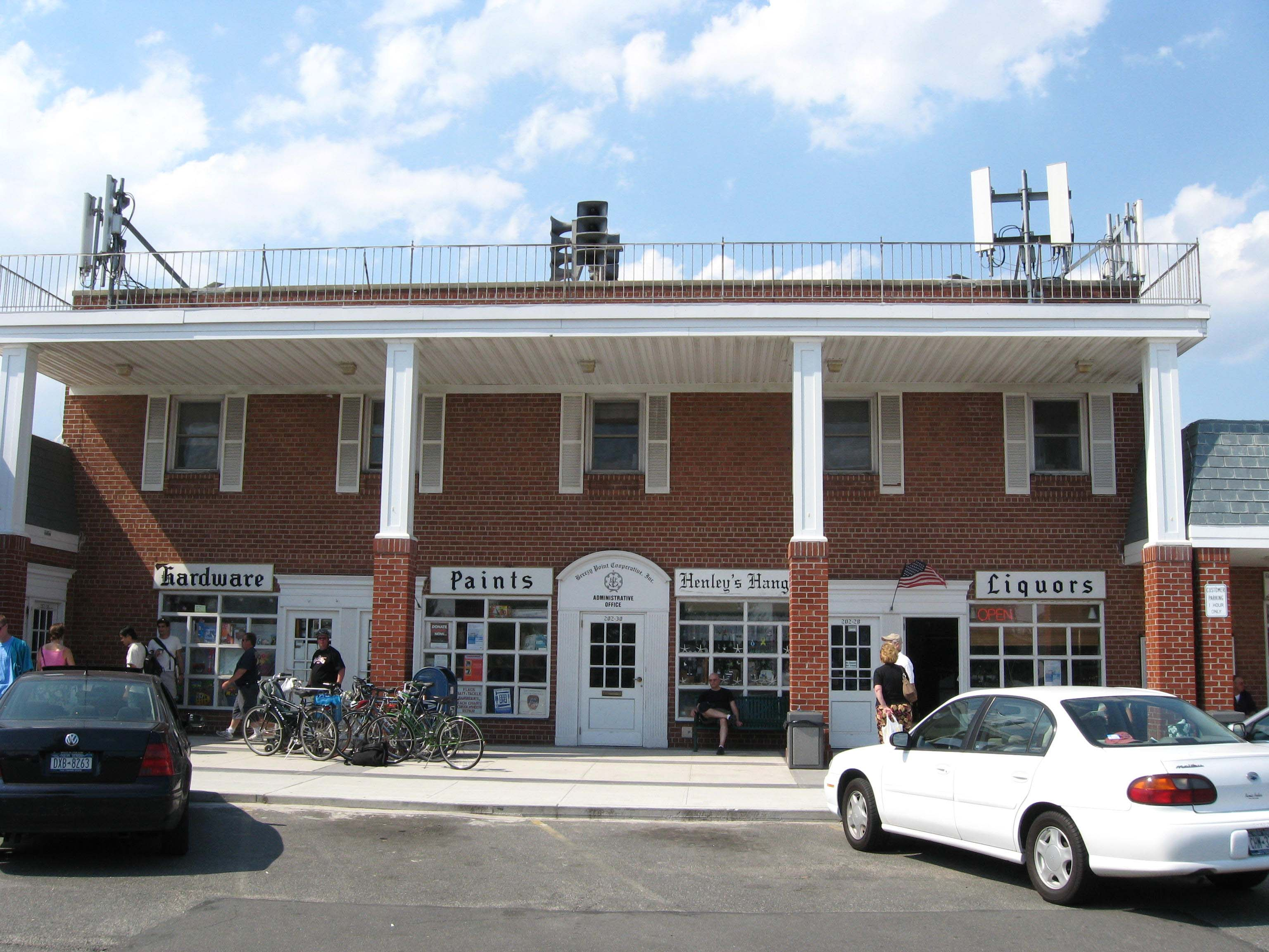 Looking northeast at Breezy Point, Queens shopping center admin on a sunny afternoon.